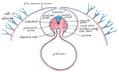 Diagram of a transverse section, showing the mode of formation of the amnion in the chick. The amniotic folds have nearly united in the middle line. (From Quainâ€™s Anatomy.) Ectoderm, blue; mesoderm, red; entoderm and notochord, black.